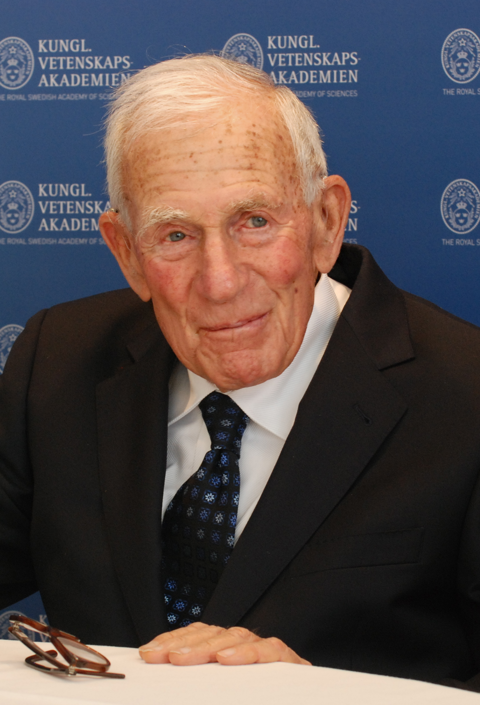 Crafoord Prize 2010: press conference with the laureate Walter Munk